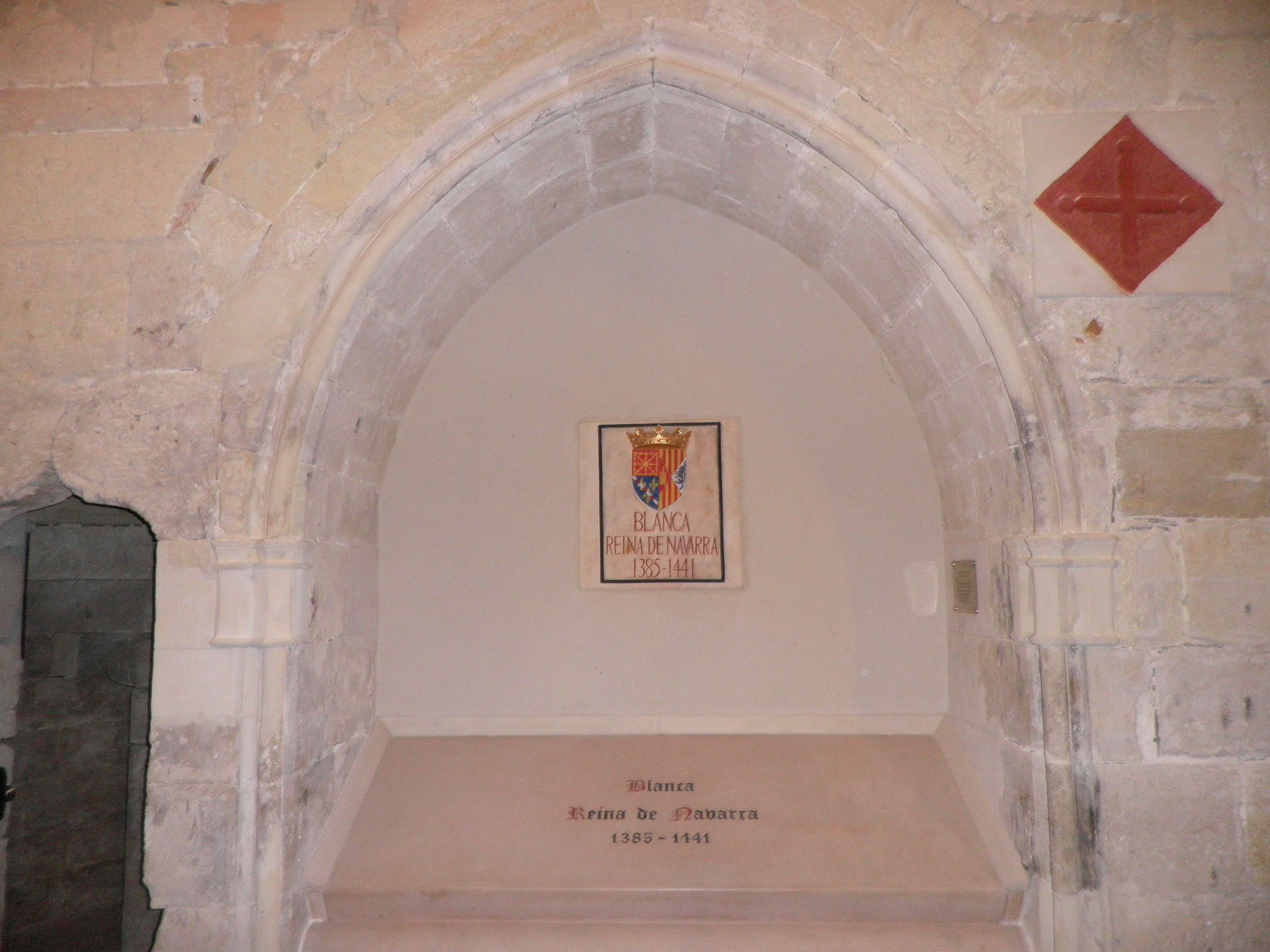 Tomb of Queen Blanche I of Navarre in the church of Santa Maria la Real de Nieva, province of Segovia, Spain.